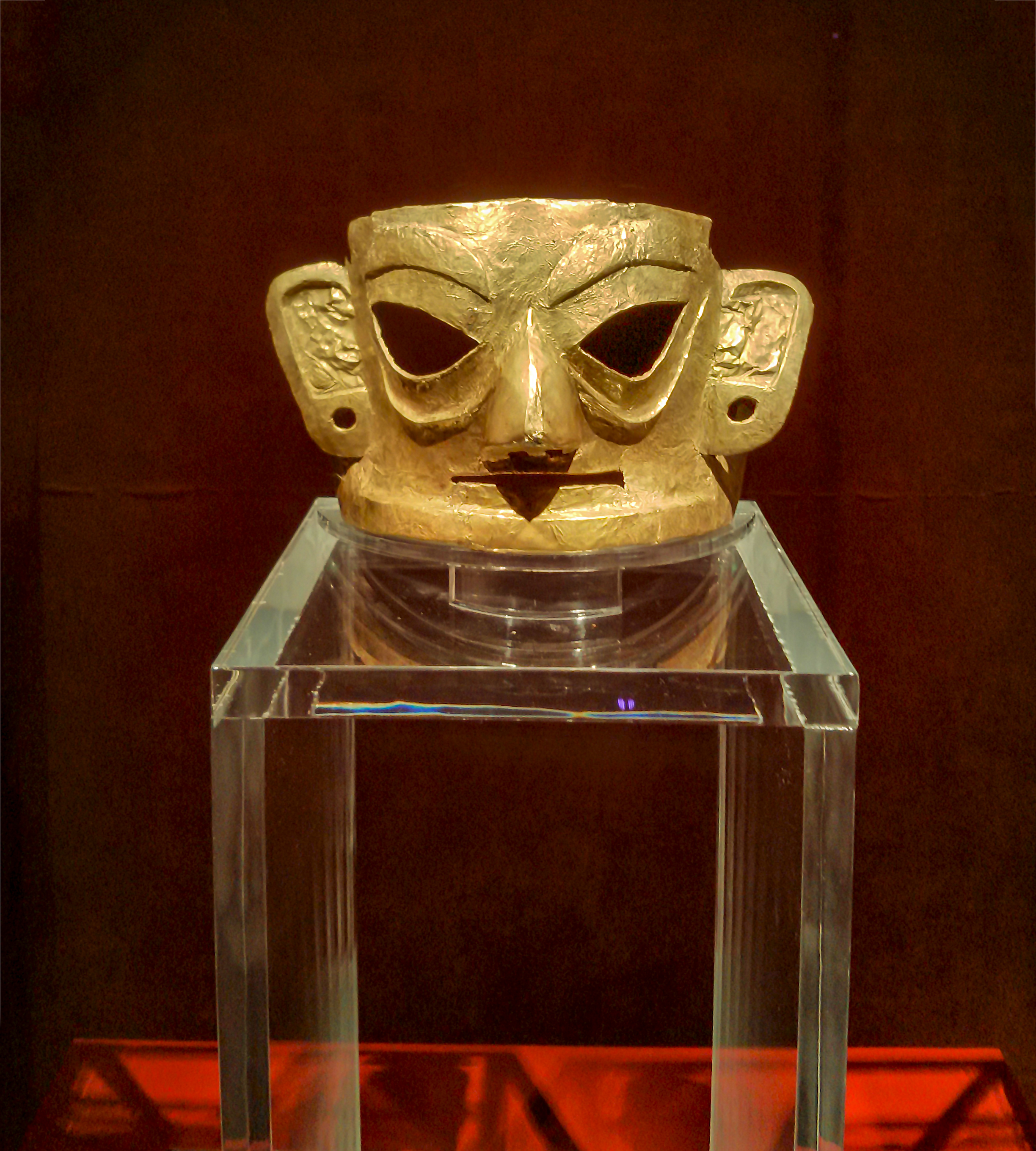 Golden Mask in Jinsha Site Museum, Chengdu City, Sichuan Province